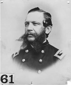 Colonel Henry Moore (47th New York Volunteer Infantry Regiment)